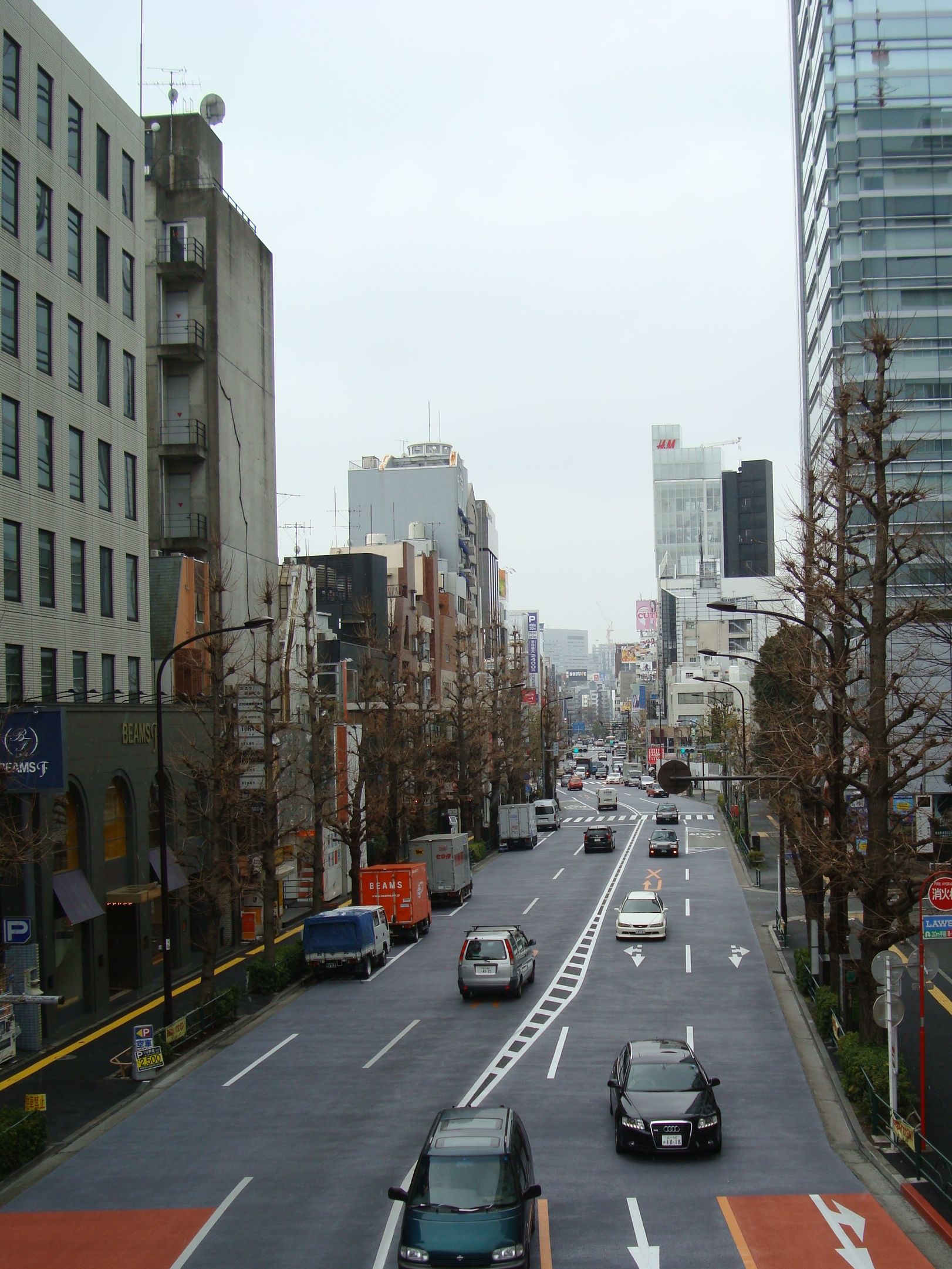 Meji-Dori Avenue in Harajuku, Tokyo